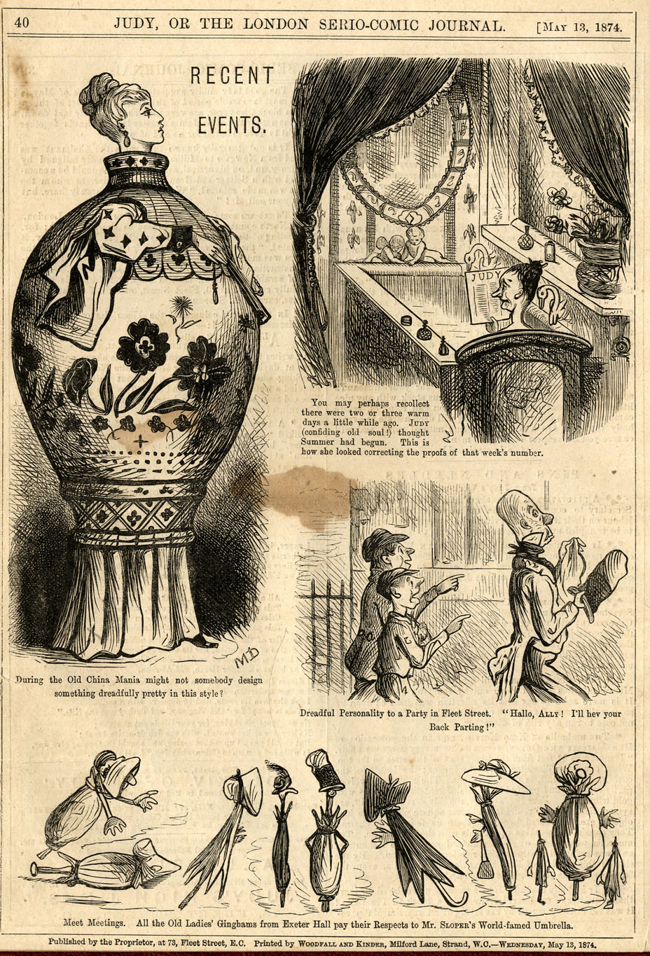 A page featuring Ally Sloper drawn (and probably written) by Mary Duval and published in Judy in the 1870's. For more details, see the title.